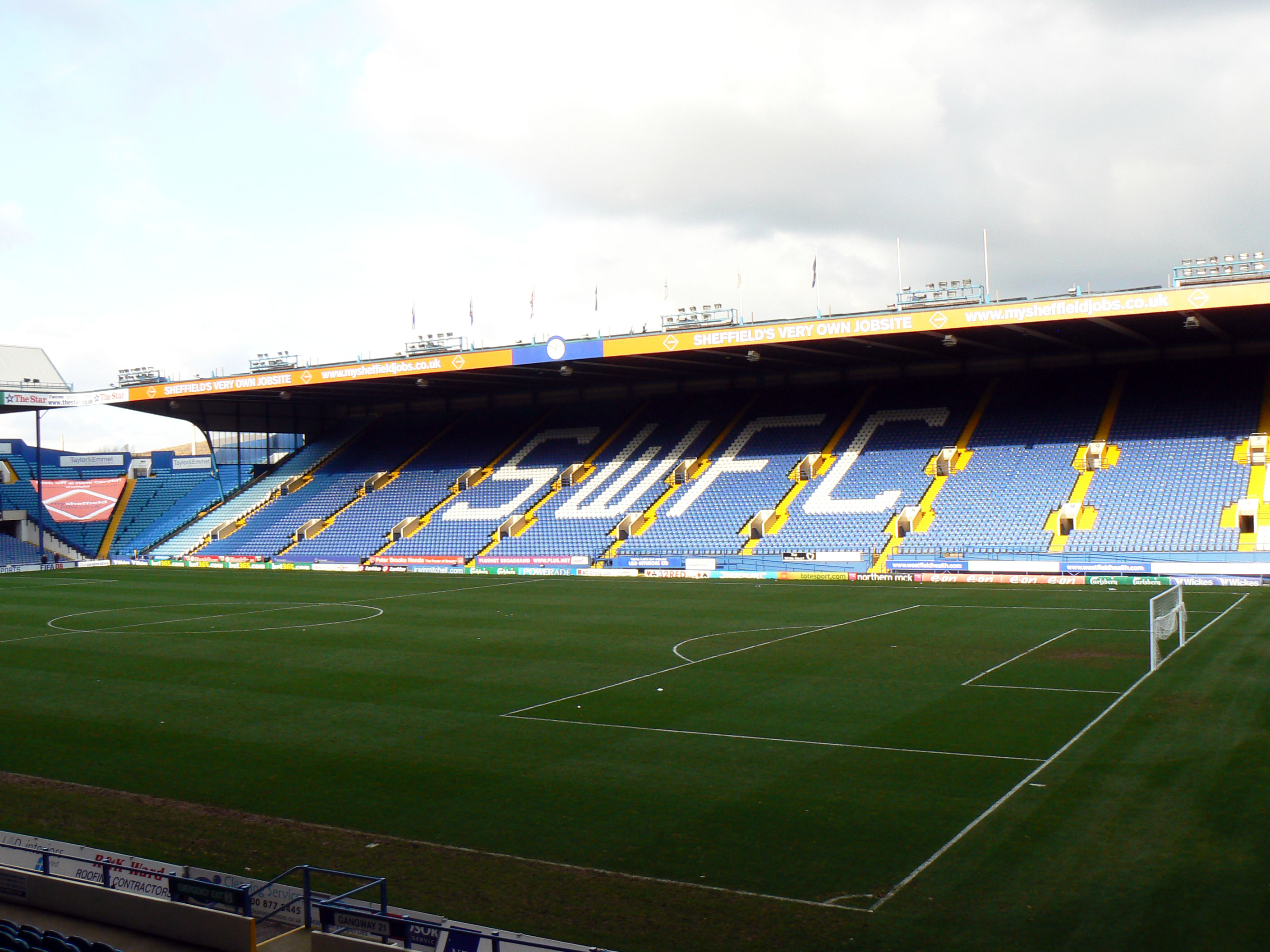 View of the North Stand (otherwise known as the 'Cantelever Stand') at Hillsborough Stadium, Sheffield - home to Sheffield Wednesday Football Club. Image shows the 2007-2010 sponsorship livery of 'My Sheffield Jobs', 'Sheffield's Very Own Jobsite', '